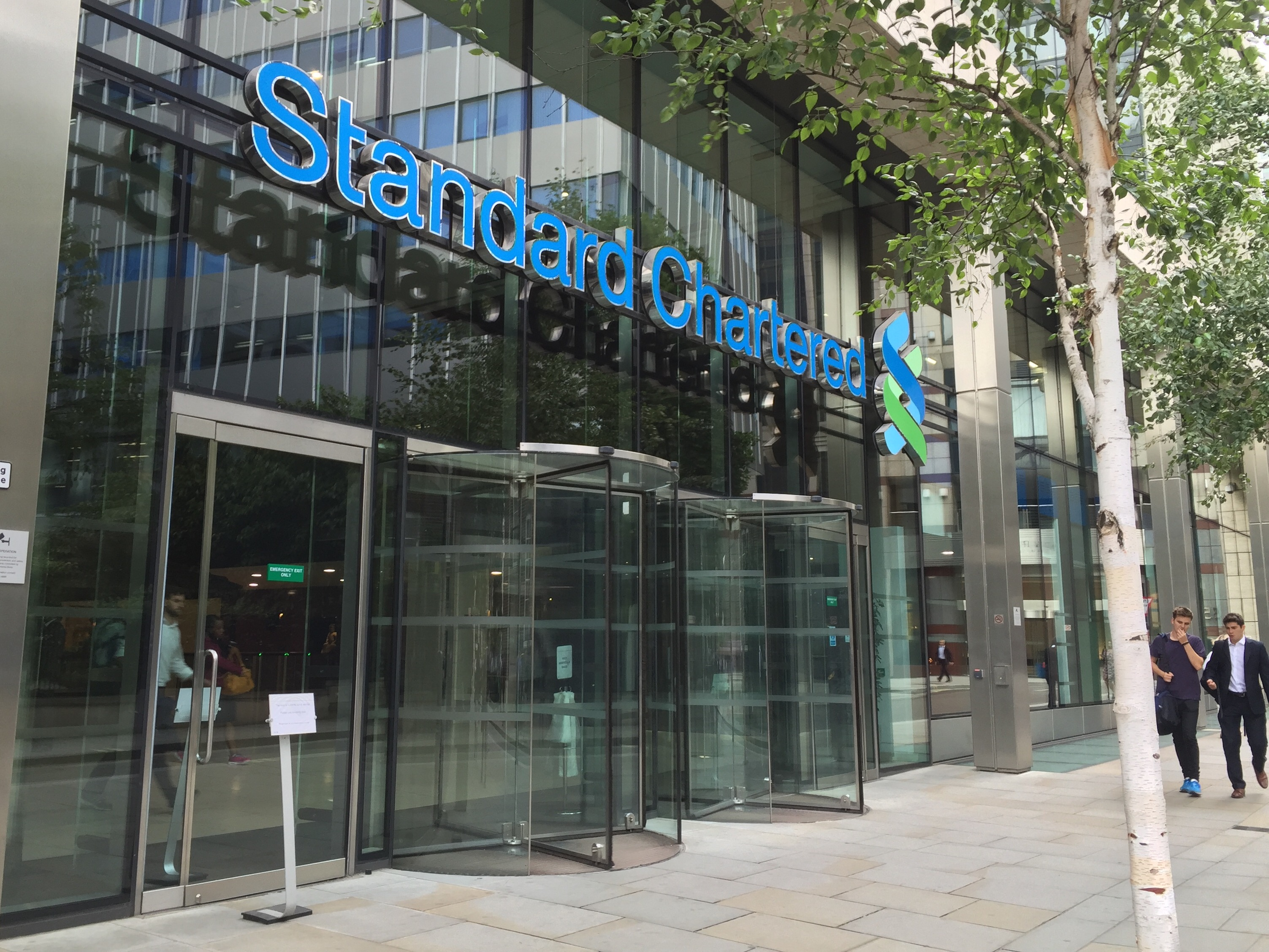 Standard Chartered Bank London